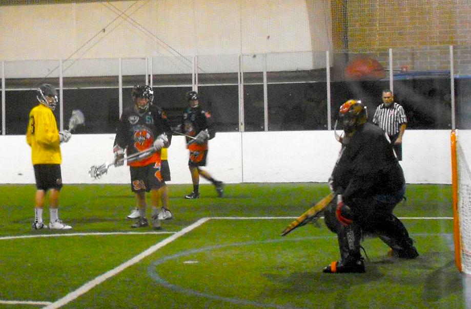 These images of Continental Indoor Lacrosse League Action action during the 2012 season and are from the collection of Devan Mighton.